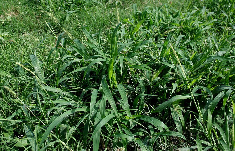 Setaria verticillata (Syn.Panicum verticillatum, Pennisetum verticillatum)- Bristly Foxtail , bur bristle grass, bur grass, foxtail, hooked bristlegrass • Hindi: Laptuna, Latkaunya • Tamil: Amarippul, Chankari, Chataippul • Telugu: Chigirinta gaddi, Chikilinta gaddi- in Hyderabad, India.